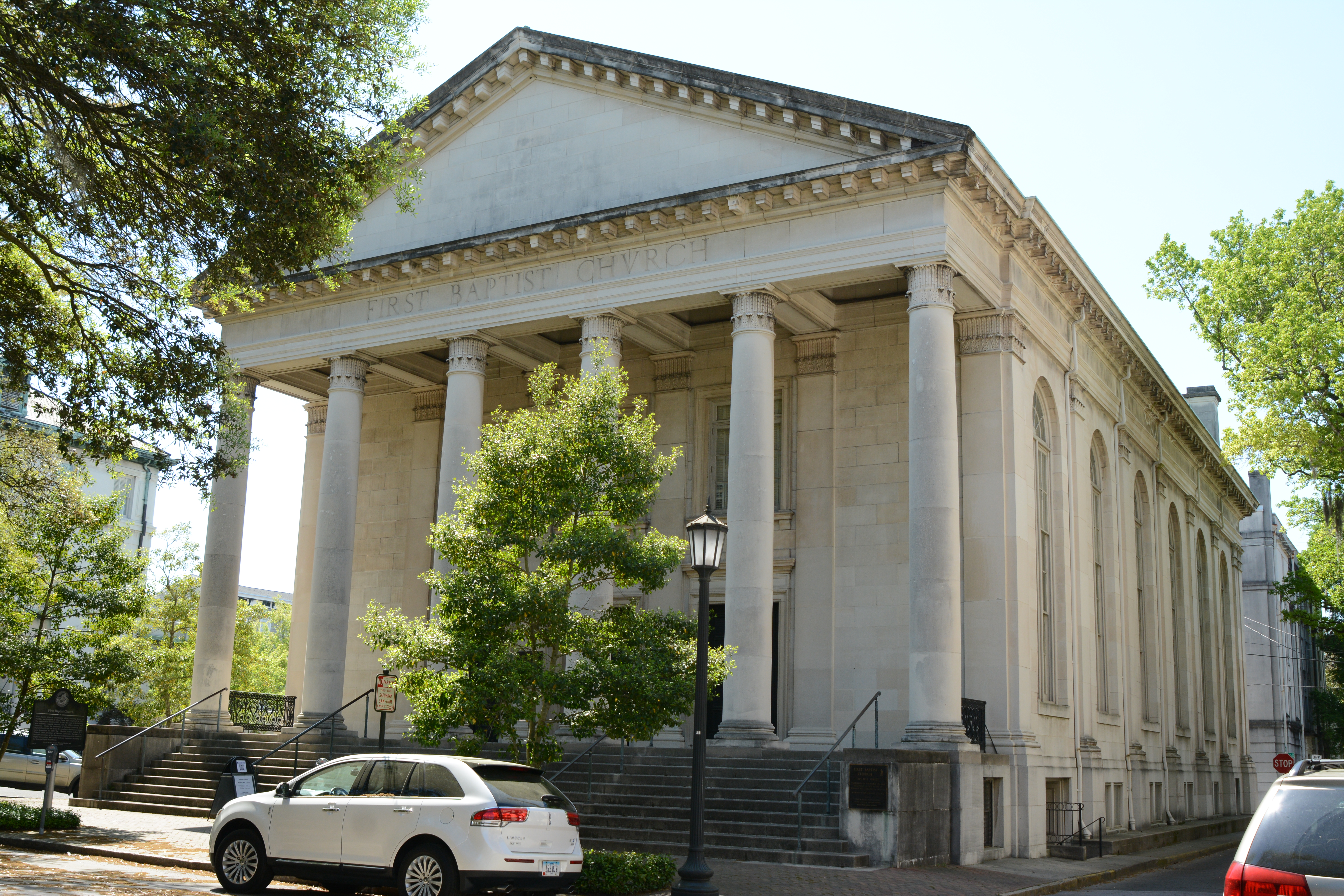 First Baptist Church in Savannah, Georgia, US. It is the oldest surviving church in Savannah.